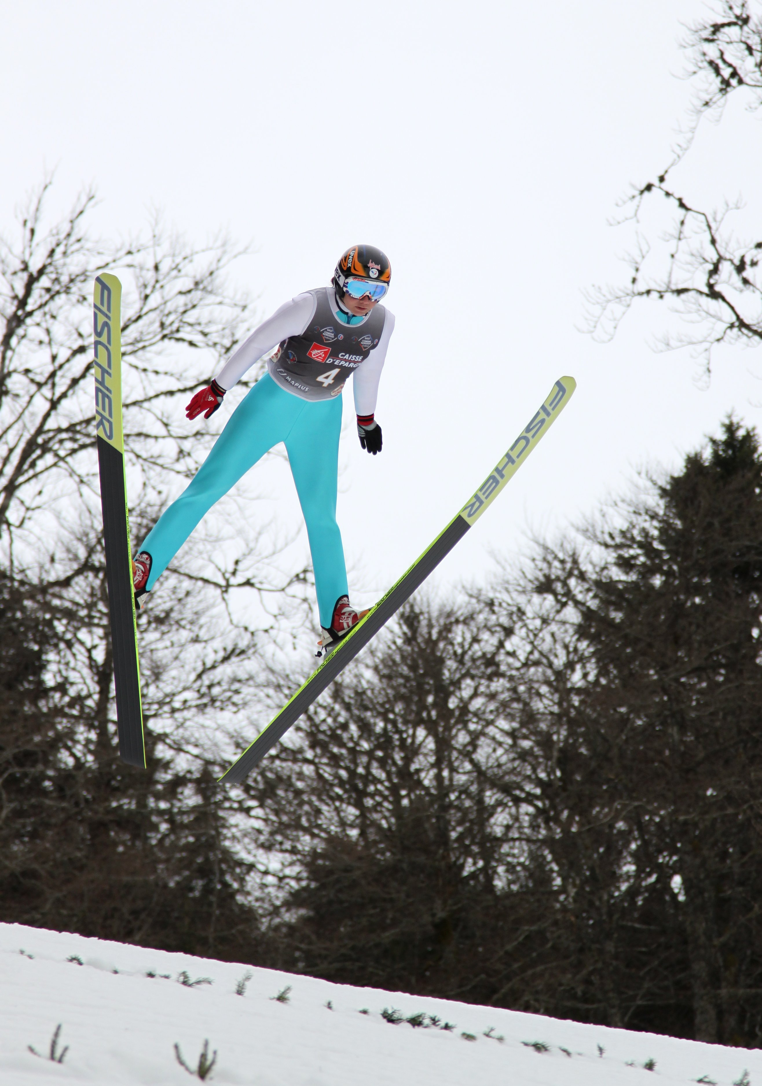 Caroline Espiau : winner of the National French Championship in Prémanon on the 2010-04-03